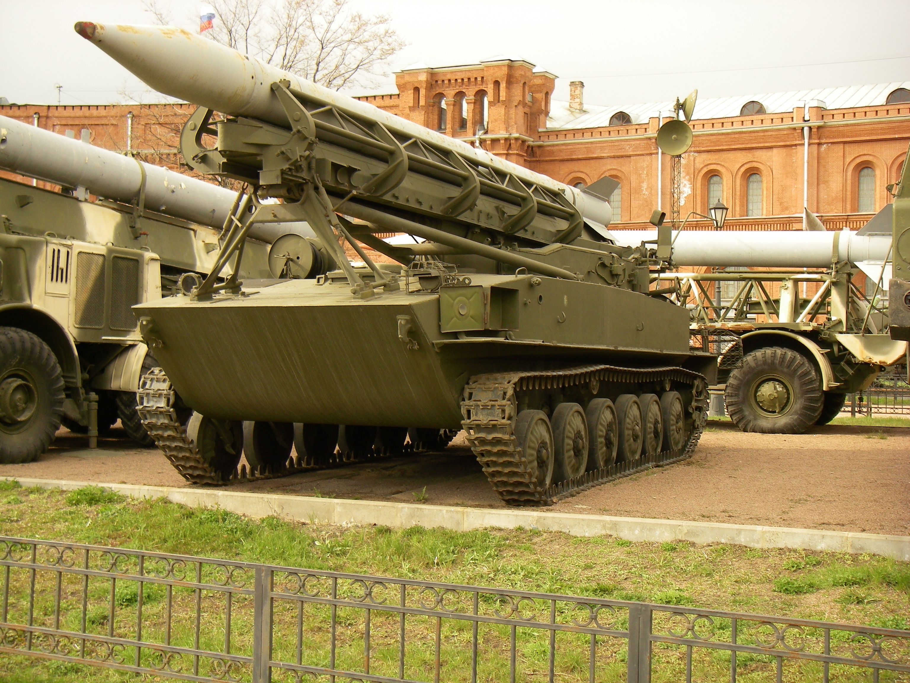 2P16 Transporter-Erector-Launcher with 3R9 rocket of 2K6 missile complex «Luna» in Saint-Petersburg Artillery museum